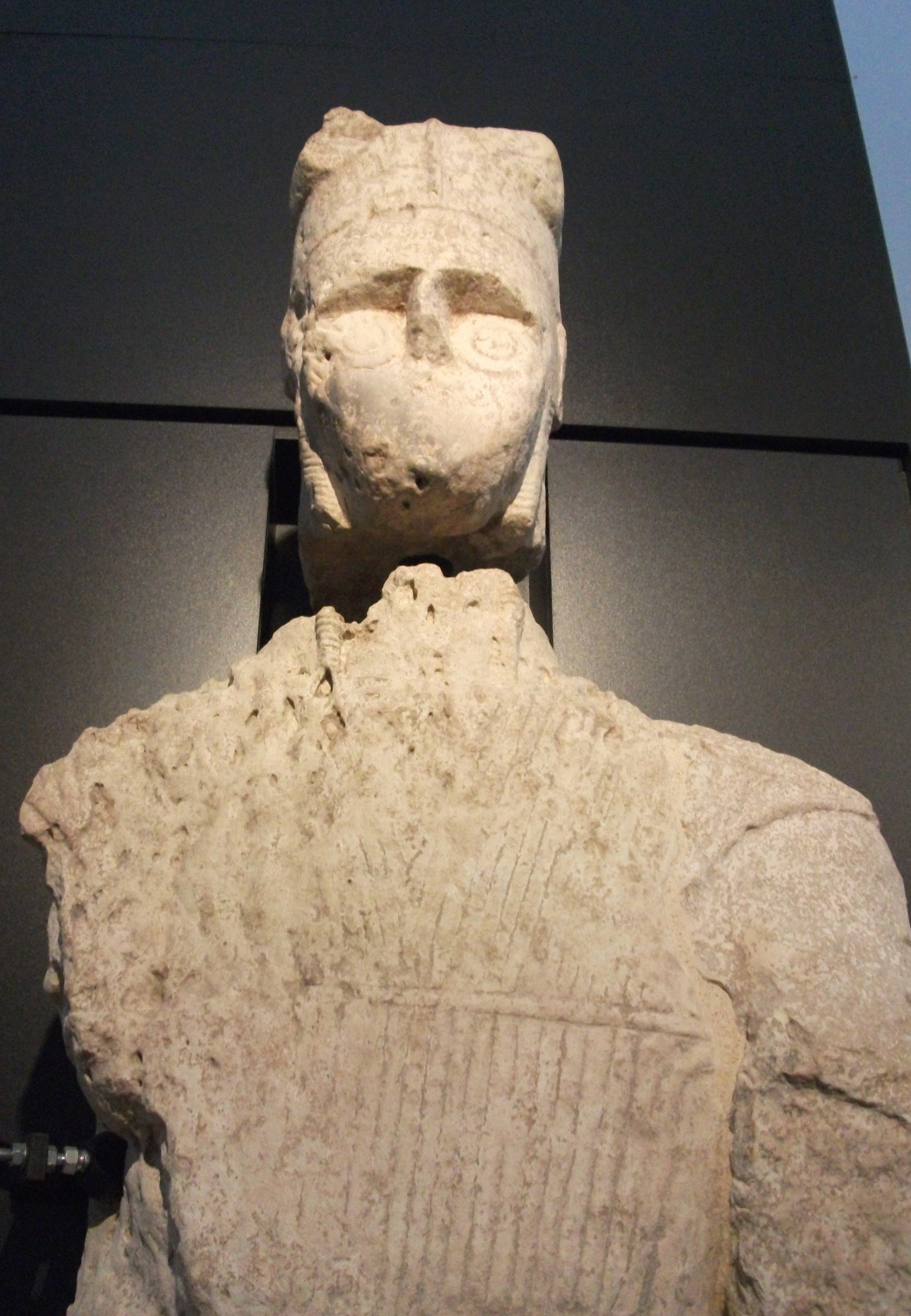 Sculpture, Giant of Monte Prama, warrior, Sardinia, Italy, Nuragic civilization,archaeology, bronze age